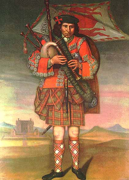 Depicted person: William Cummimg (c. 1687 - c. 1723)